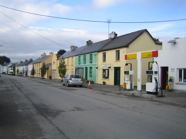 Ballydesmond This is the main road, the R577, through the town.